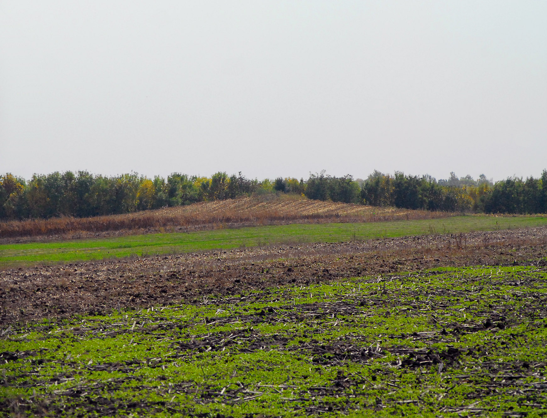 BAN055